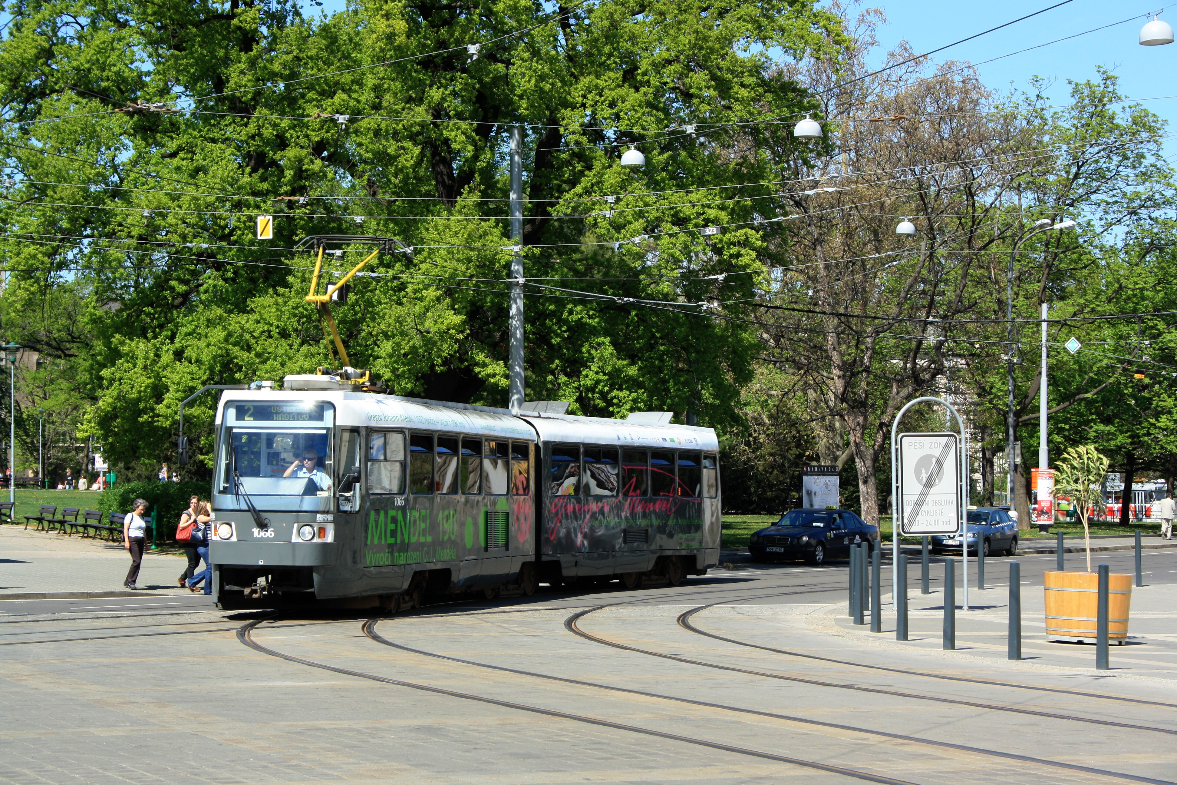 Tatra K2R tram No. 1066, Brno, Czech Republic This photograph was taken with a DSLR from WMCZ's Camera grant.